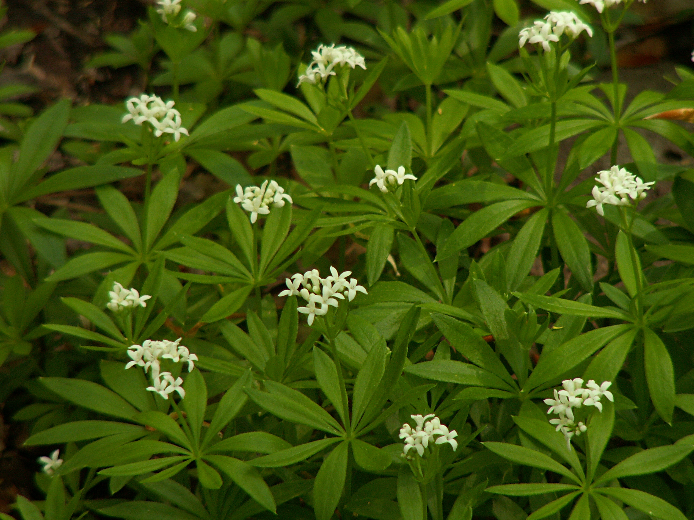 Woodruff (Galium odoratum) blooming along the Trillium Trail, Fox Chapel, Pennsylvania